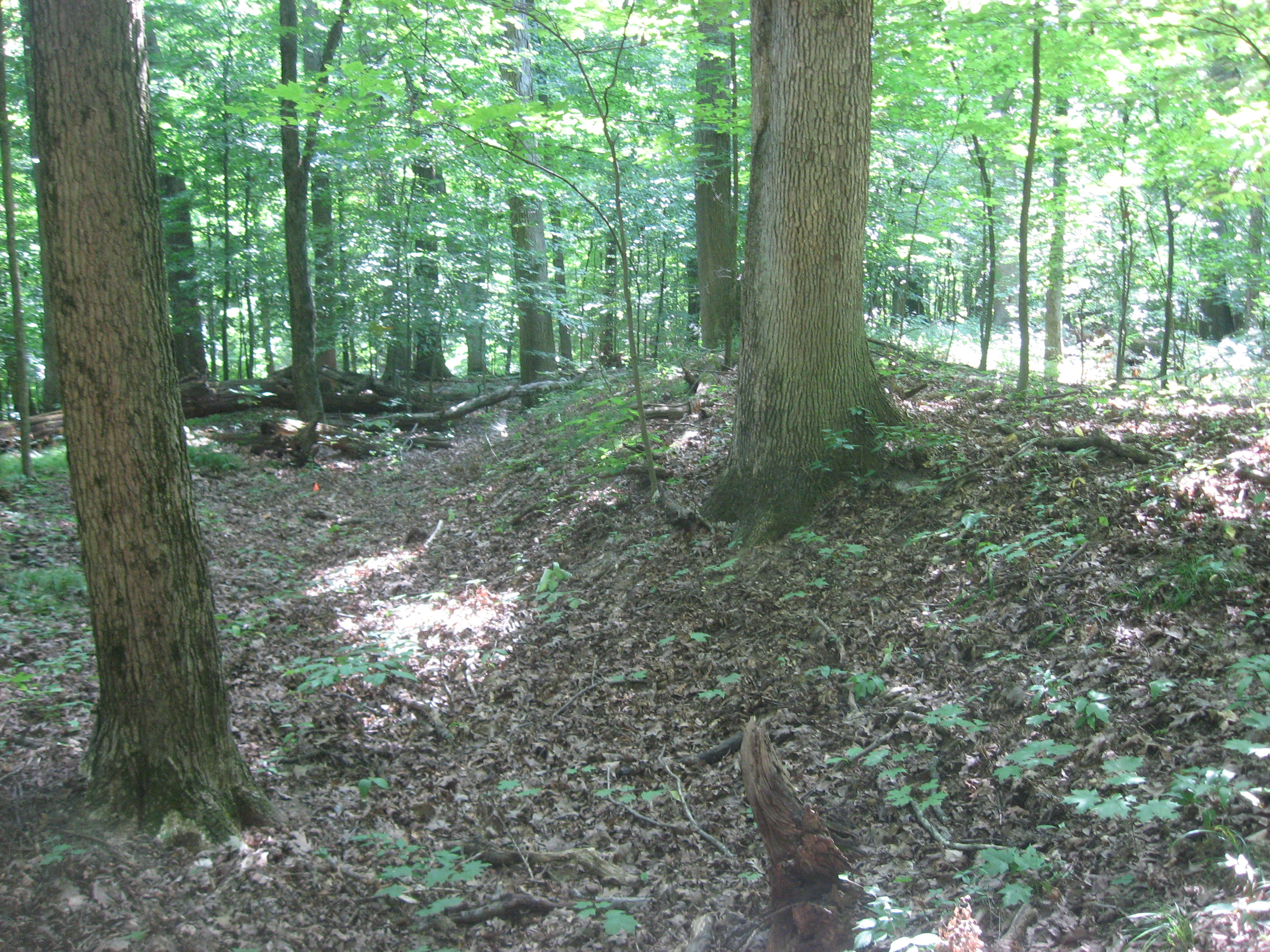 Looking northward along some of the Highbank Park Works, a set of complex of earthworks built by people of the Cole culture during the Woodland period. This photo is taken from the spot where a park trail crosses over the works. Today located within Highbanks Metropark in Orange Township, Delaware County, Ohio, United States, the works are an archaeological site and have been listed on the National Register of Historic Places.